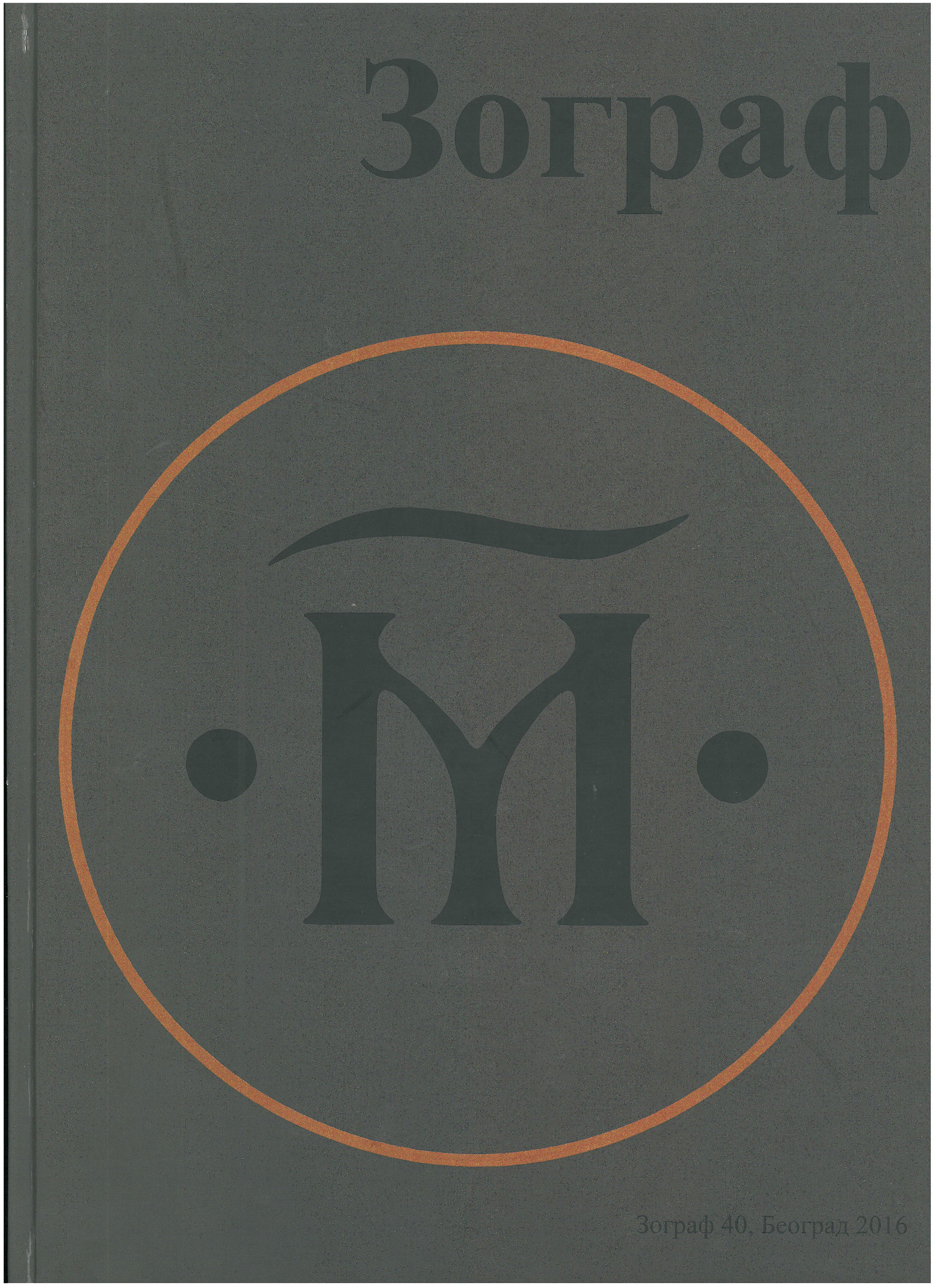 Journal Cover Zograf, Institute of Art History, University of Belgrade, Faculty of Philosophy, Serbia, 2016.